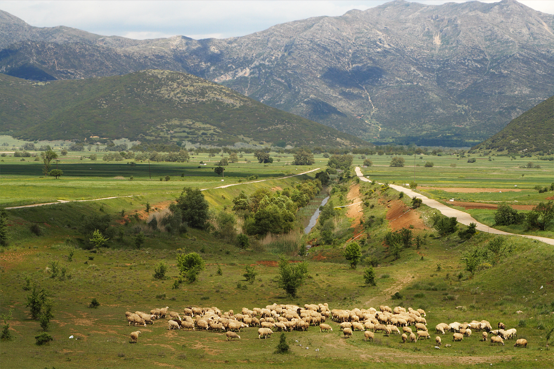 Plateau Orchomenus (a karst depression in 625 m, polje), on all sides surrounded by mountains. On its borders are the villages Vlacherna, Hotoussa, Limni, Kandila, Arcadia. Relatively frequent geological phenomenon in the karst basins of the northeast Peloponnese, Greece. The plateau has no natural surface water outlet. Precipitation must be drained by ditches. When precipitation of winters is exceptionally rich, some agricultural fields may be wet. Depending on the capacity of the draining ditches, the artificial tunnel to Panagitsa,_Arcadia and two geologically old ponors, temporary lakes may result even nowadays.